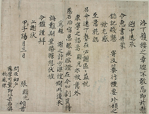 Letter of Jang Hyugwang